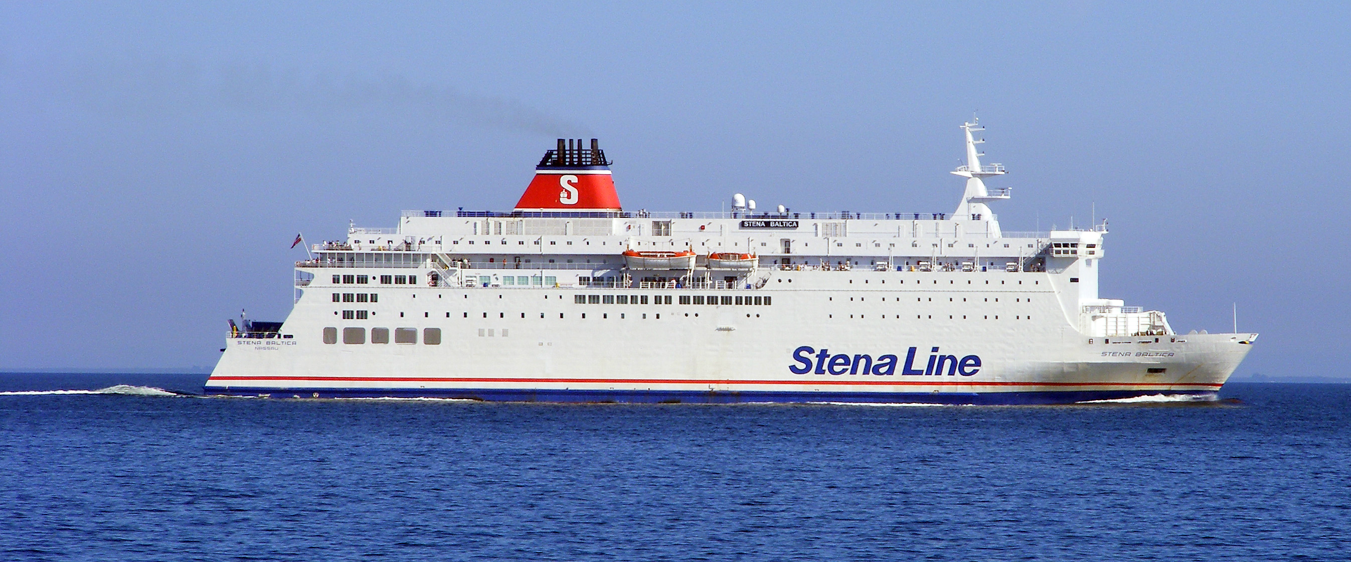 MF Stena Baltica on the Gdańsk Bay on the route from Gdynia to Karlskrona. Norsk (bokmål): Stena Baltica